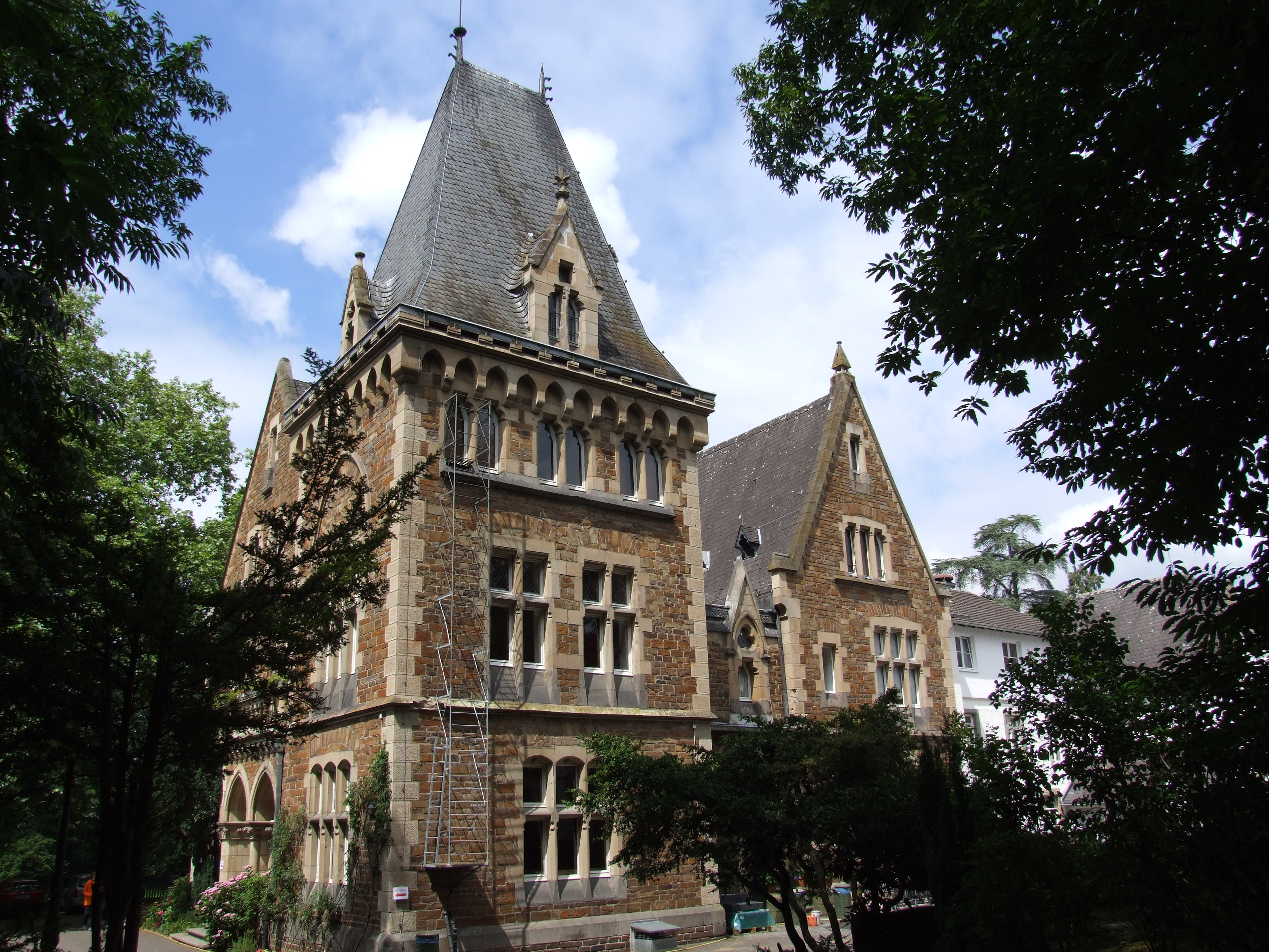 Schloss Hagerhof, Menzenberg, Selhof, Bad Honnef